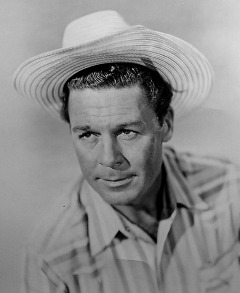 Actor John Archer